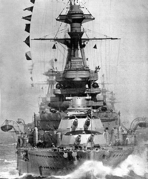 This image was taken of HMS Royal Oak during a "Red vs. Blue" Combined Fleet in the Mediterranean, March 1928. It was taken by a servant of the British Crown during the course of his duties, and being more than 50 years old, Crown Copyright Expired is asserted.